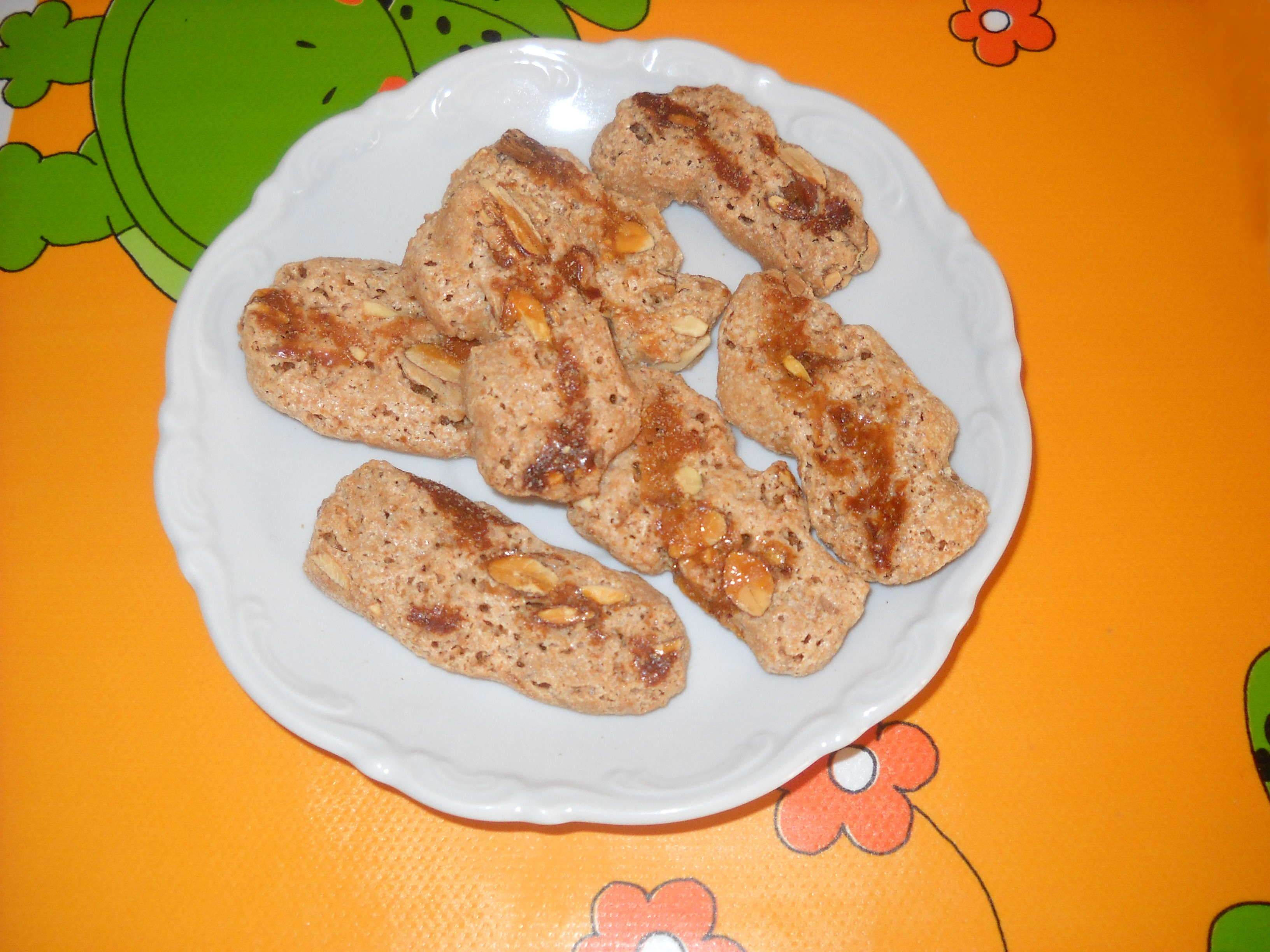 Carquinyolis from Sant Quintí de Mediona